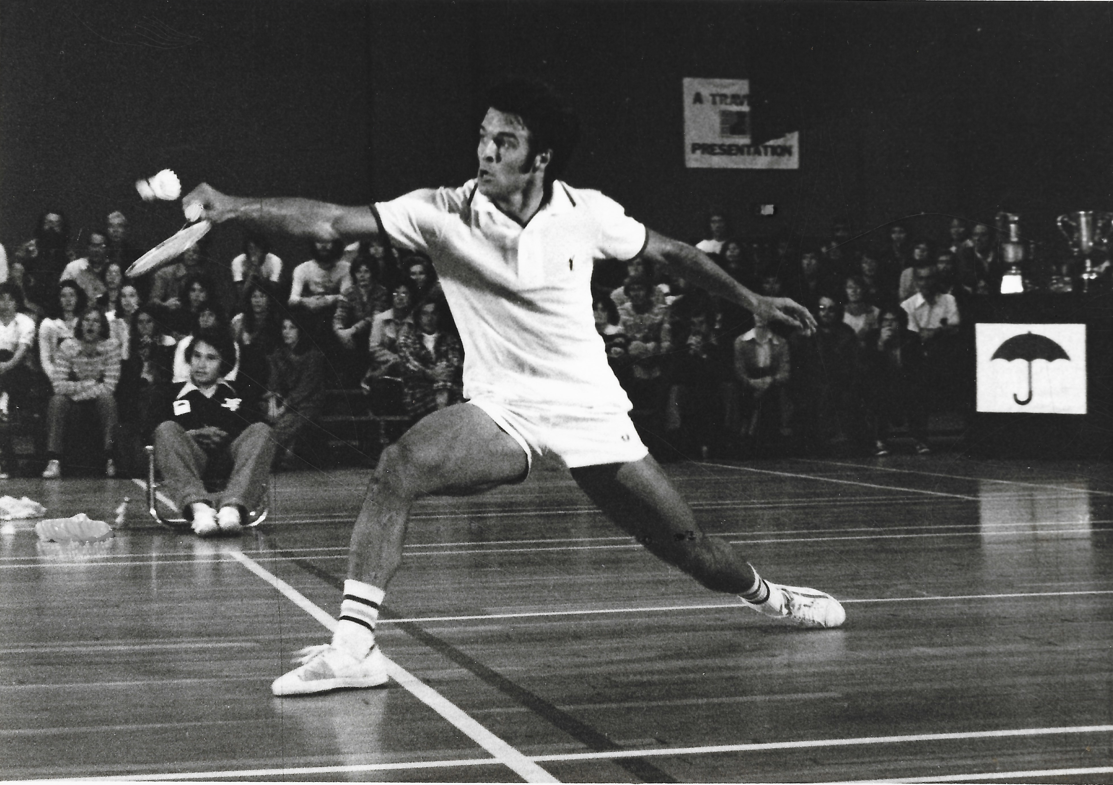 Chris Kinard 1977 U.S. Championships San Diego, California